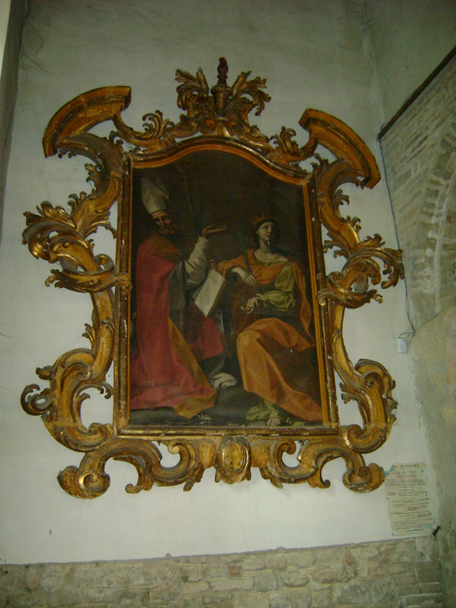 A painting perhaps dating back to 1700 that shows St. Donato and St. Catherine of Alexandria, located in the church of St. Donato in Polenta, Bertinoro, province of Forlì-Cesena, Emilia-Romagna